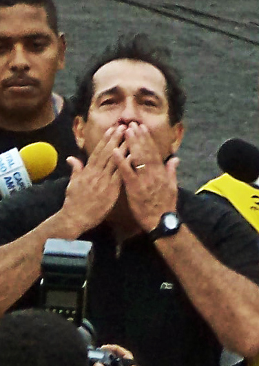 Muricy Ramalho greets fans after São Paulo FC clinched the 2006 Brazilian title.